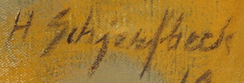 Helene Schjerfbeck's signature